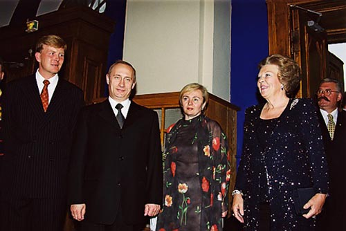 THE MALY THEATRE, MOSCOW. Vladimir and Lyudmila Putin with Queen Beatrix and Prince Willem-Alexander of the Netherlands before the first performance of the Dutch National Ballet in Moscow.